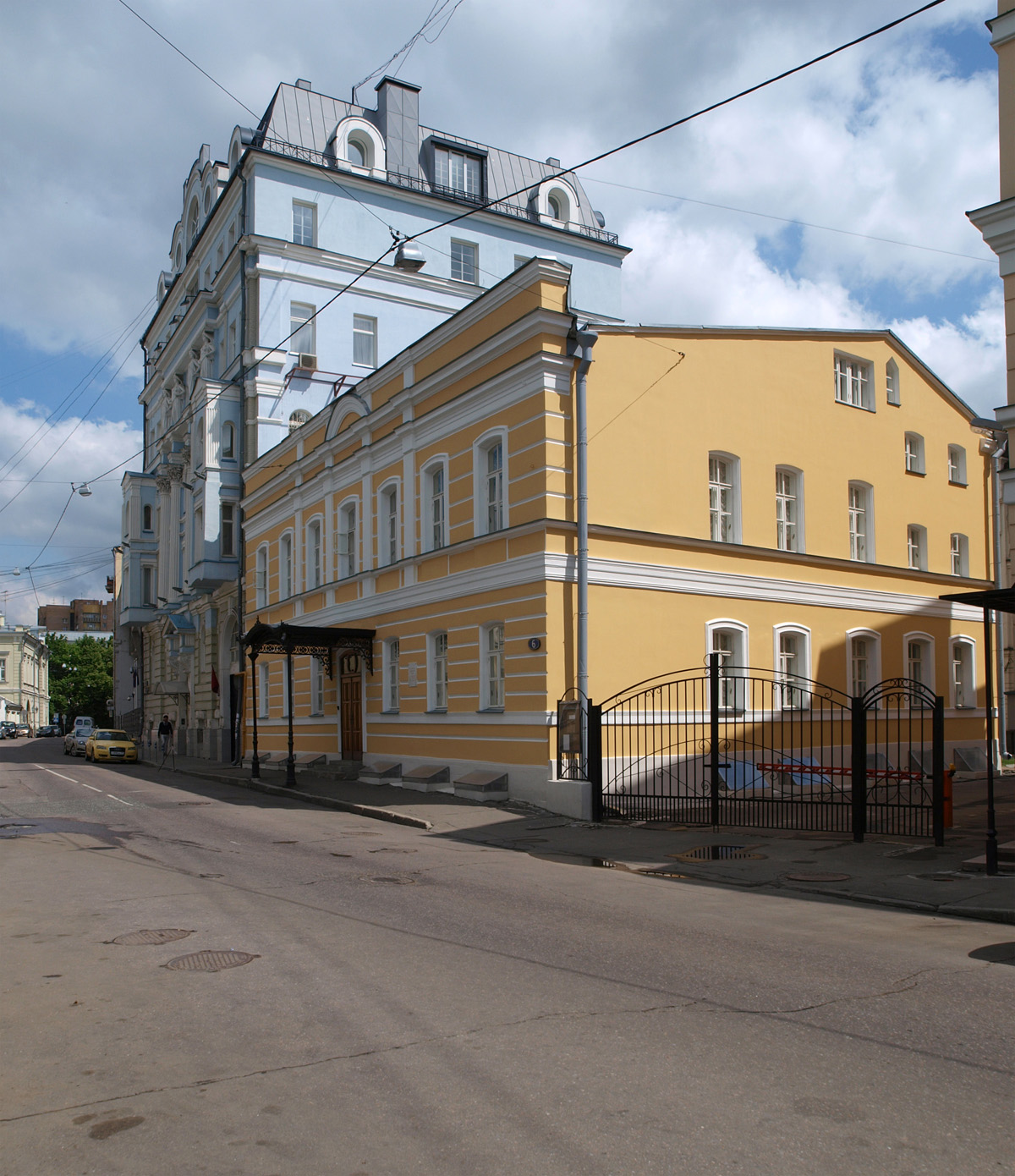 Borisoglebsky Lane, Moscow.